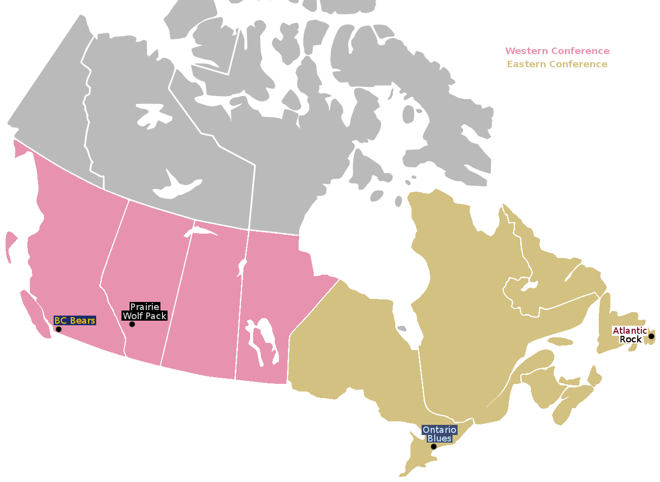 A map of where the four teams in the CRC are located.